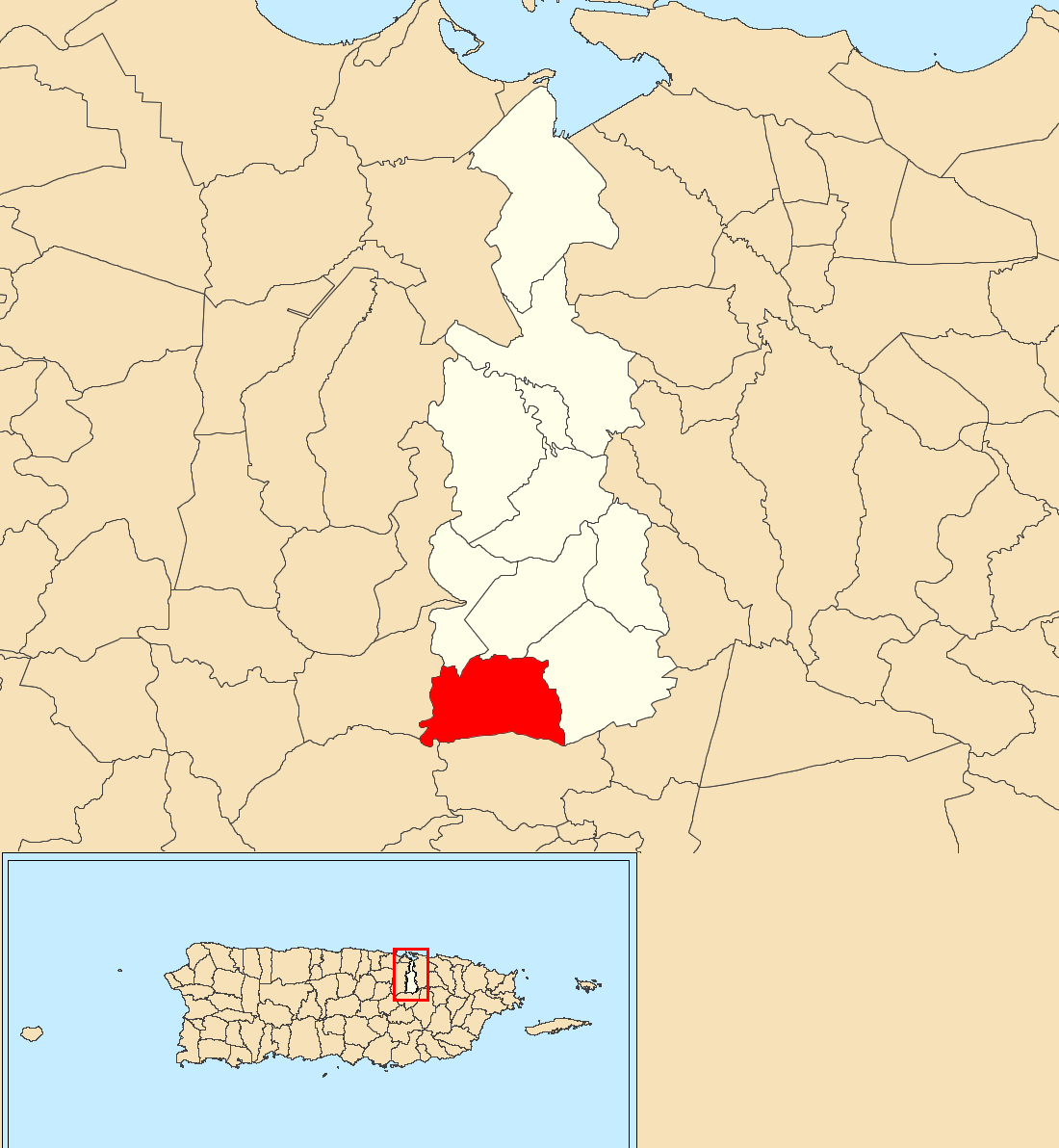 Sonadora, Guaynabo, Puerto Rico locator map